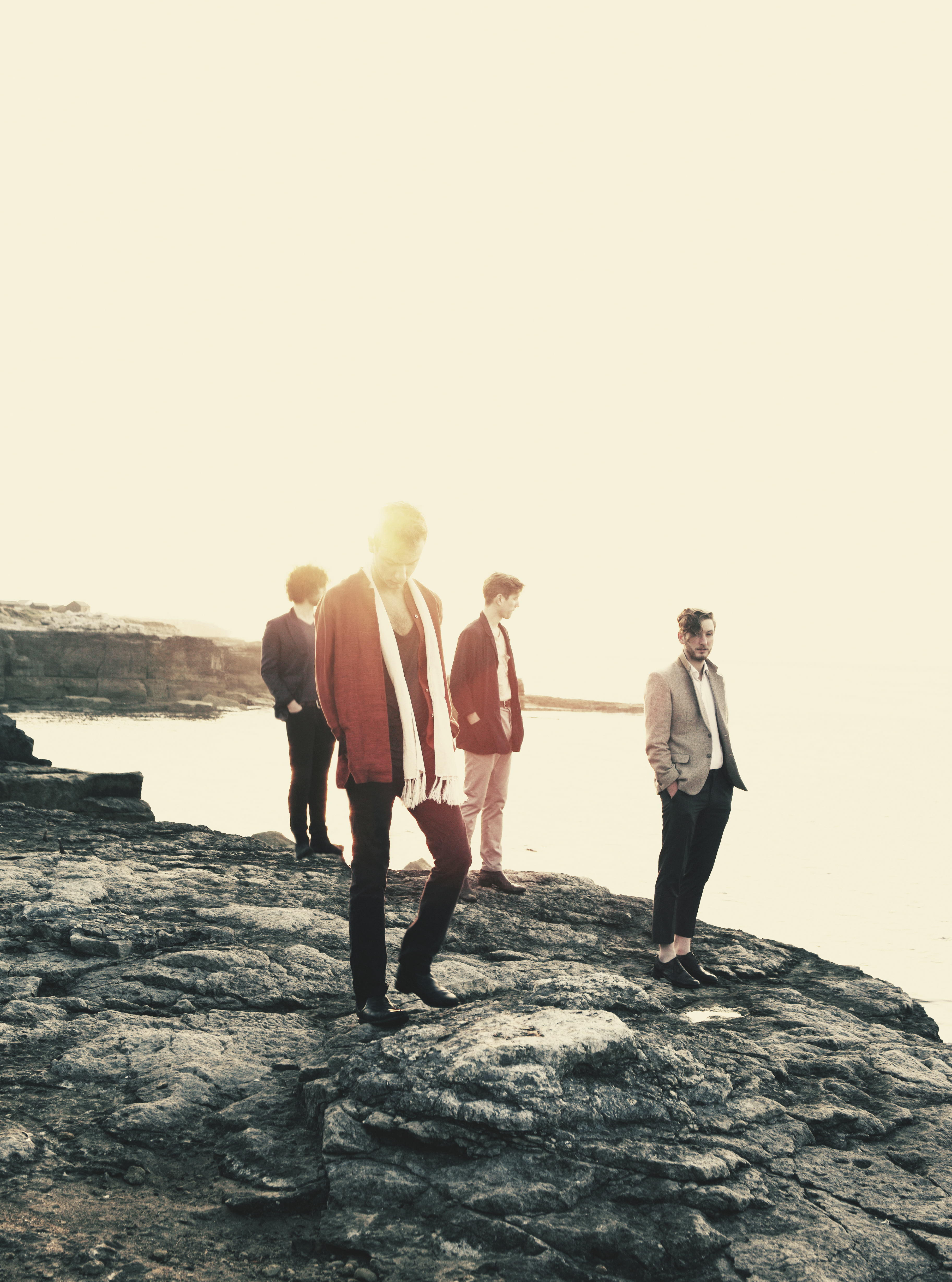 Photo of the band Wolf Gang at Camber Sands